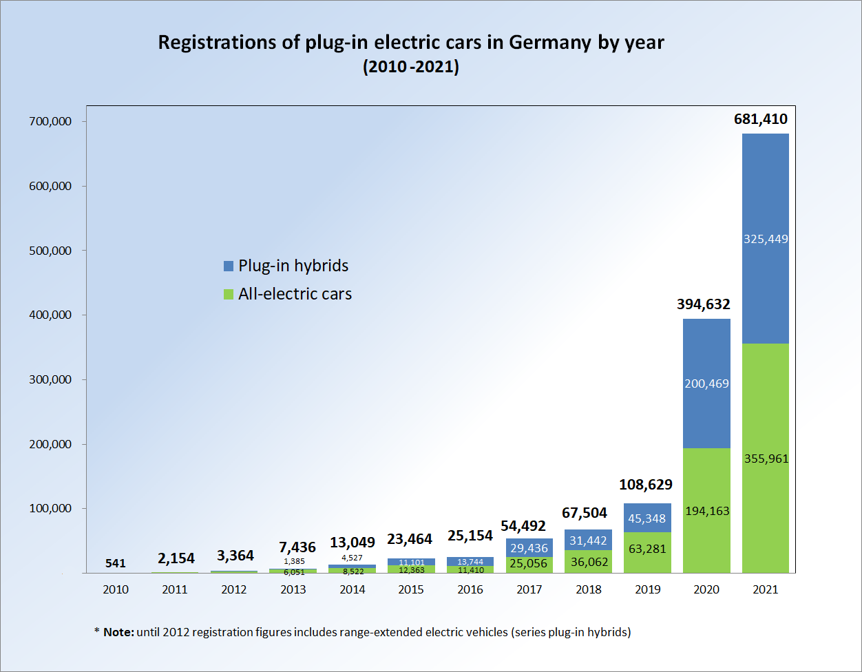 Graph showing historical series of plug-in electric passenger car registrations in Germany from 2010 to 2019. My own work. Data series for annual registrations was taken from Kraftfahrt-Bundesamtes (KBA)